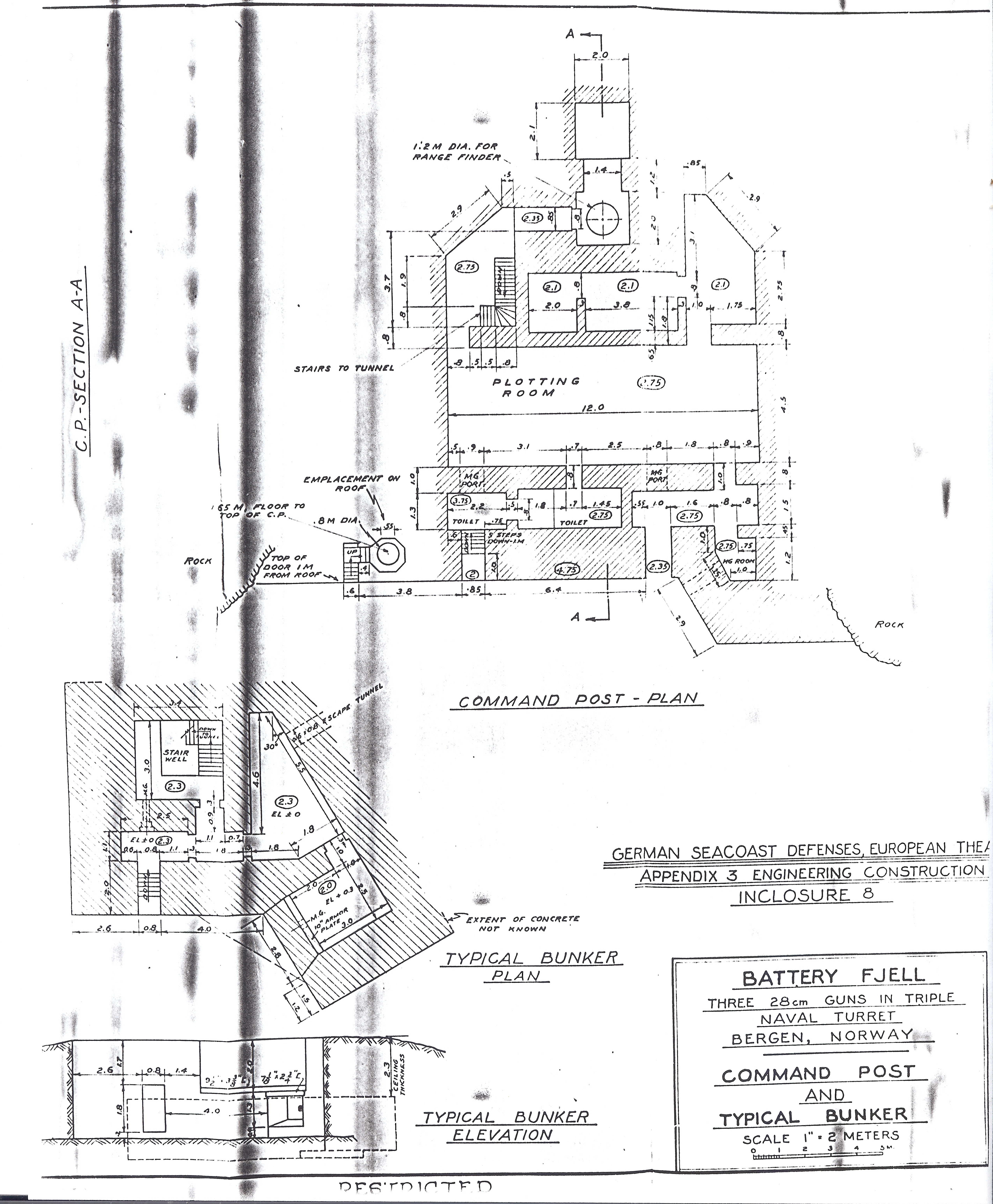 This is a drawing of the commando bunker at Fjell Festning, Hordaland, Norway. The bunker, a S446 Leitstand, was home for a large direction and rangefinder, meant to direct costal artillery.